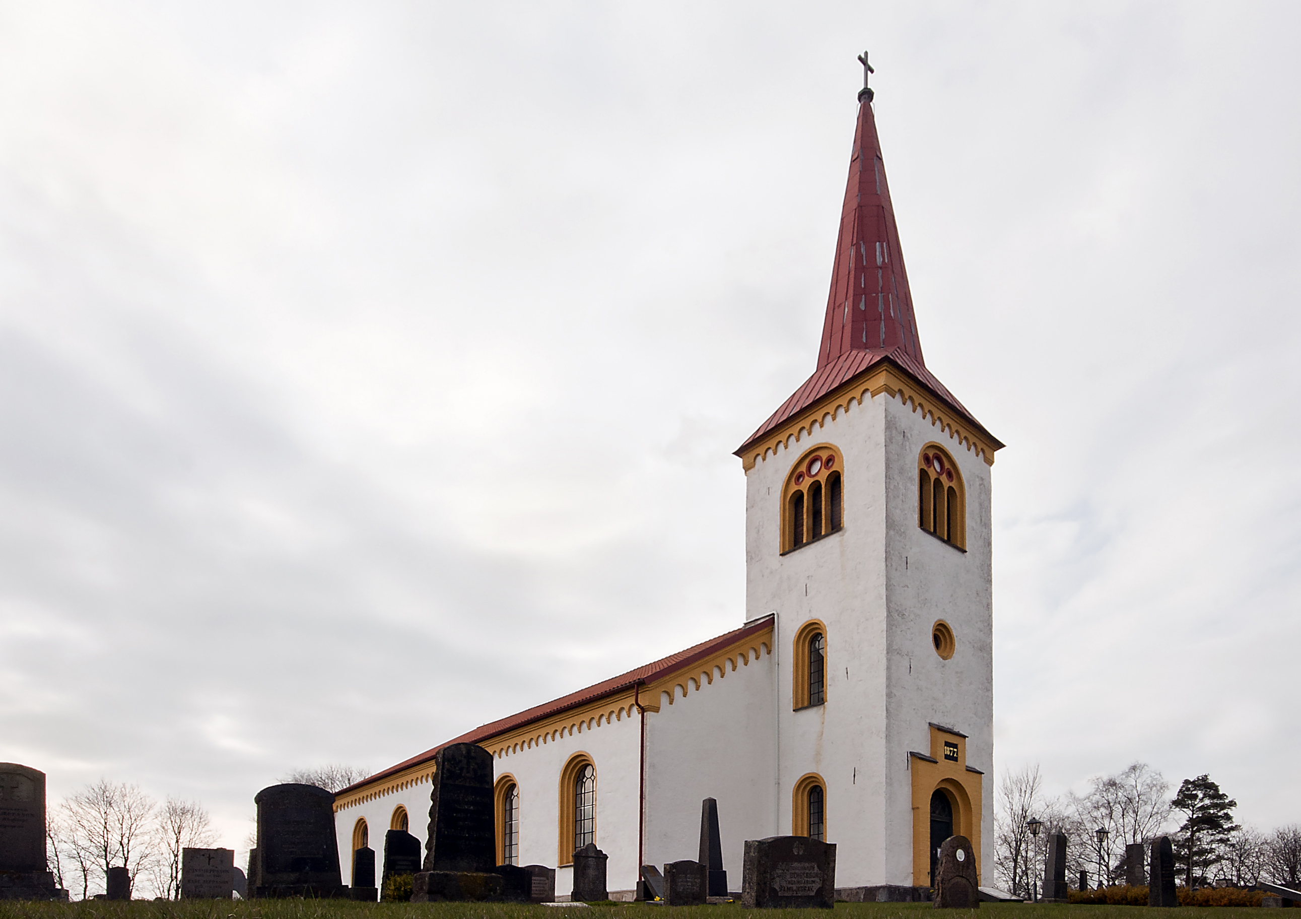 Häglinge Church, Sösdala Parish, Diocese of Lund, Church of Sweden.